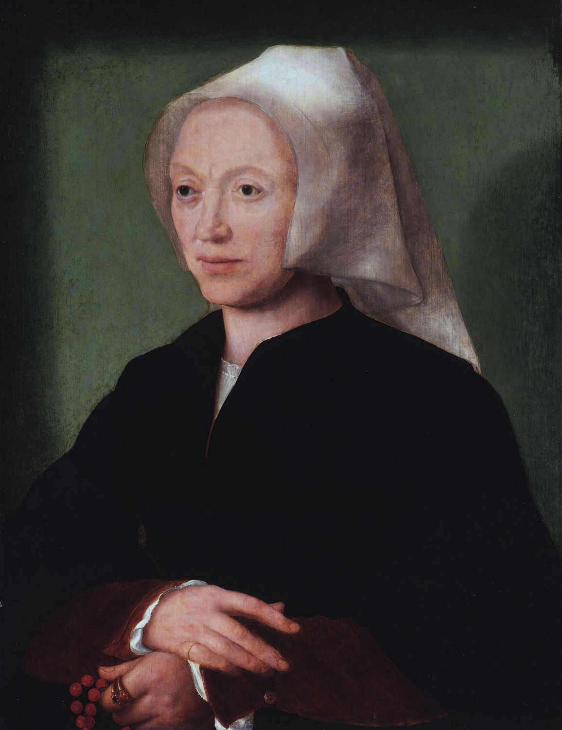 Katlijne van Mispelteeren, the artist's wife oil on panel 64.7 x 50.3 cm circa 1535-1540